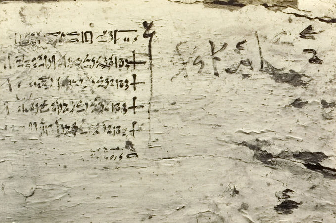 Harry Burton: Tutankhamun tomb photographs: a photographic record in 5 albums containing 490 original photographic prints ; representing the excavations of the tomb of Tutankhamun and its contents. Vol. 3